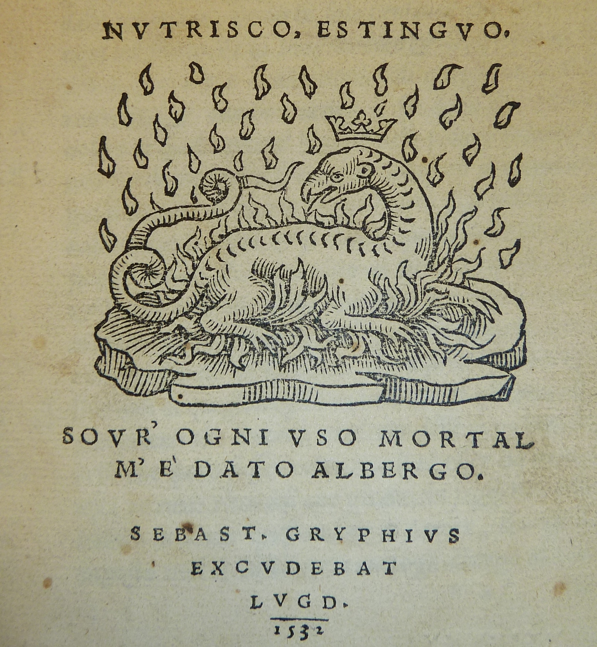 Device of Sebastianus Gryphius, 1493-1556 Penn Libraries call number: IC5 Al116 532o All images from this book